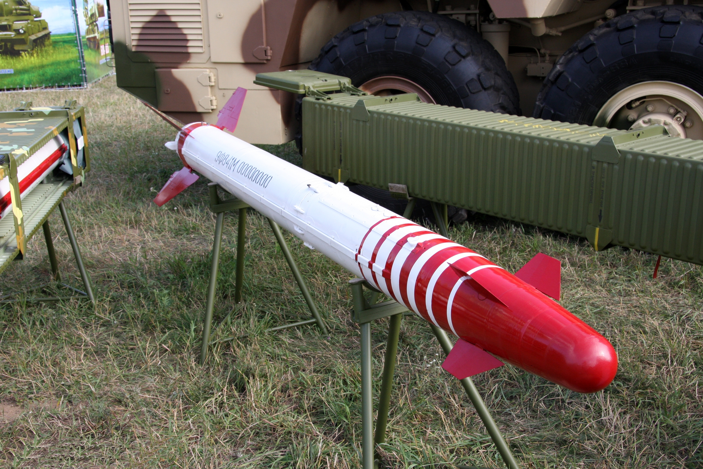 Saman-M target drone at MAKS Airshow 2009.